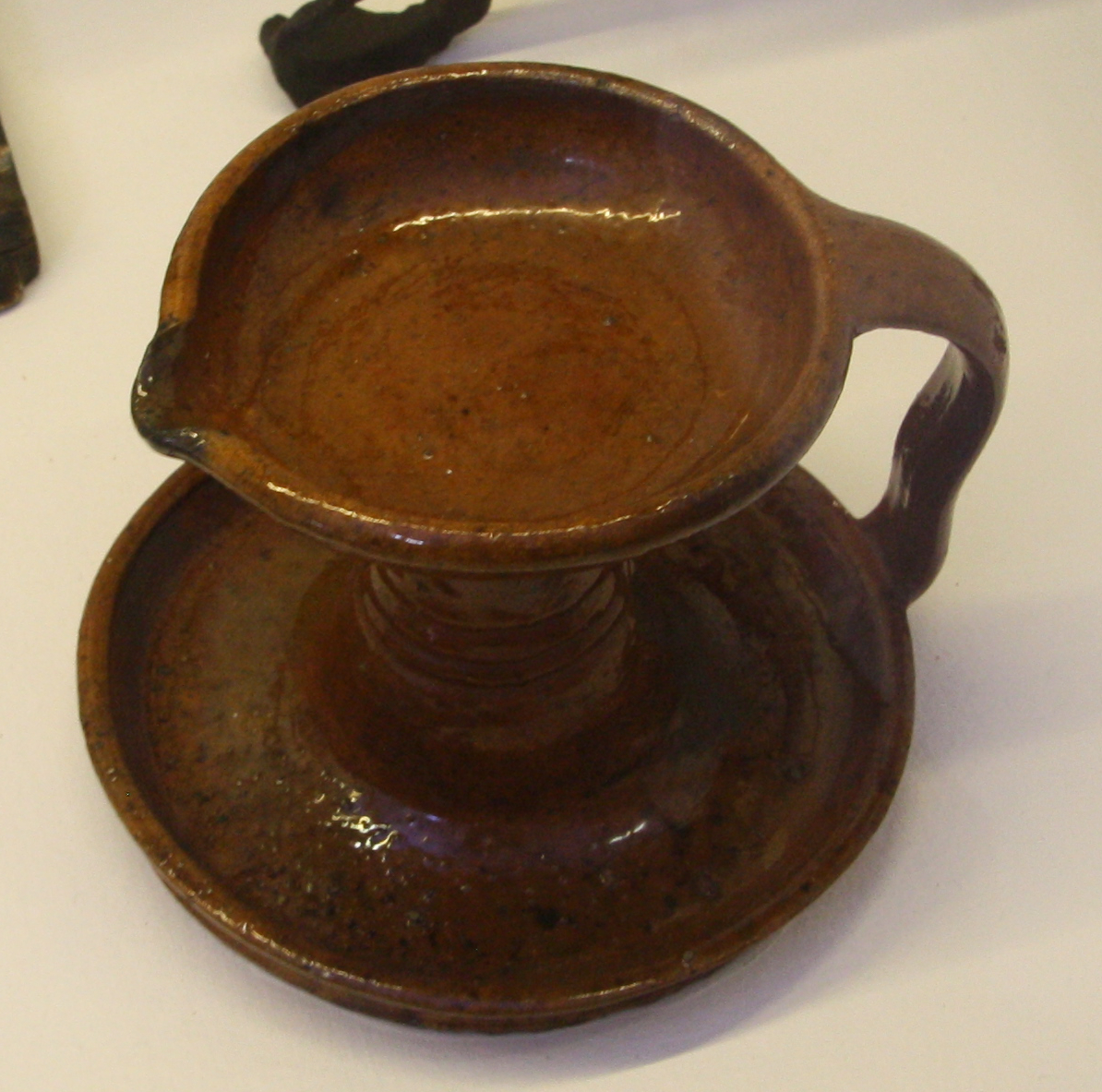 Whale oil lamp in brown-glazed earthenware with candle bowl for the wick and base drip pan. Lyse parish, Bohuslän - now in Nordiska museet, Stockhom, Sveden